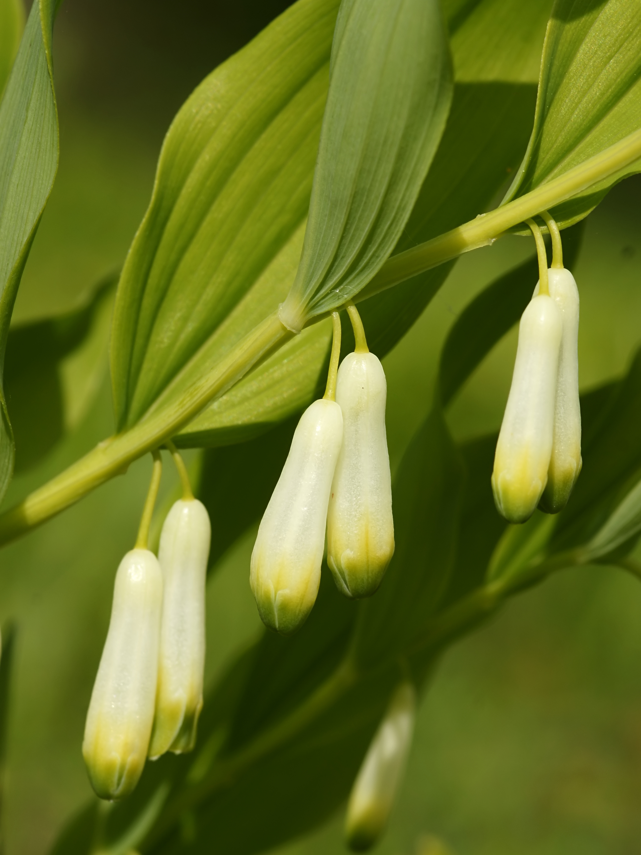 Common Box, at Fondry des Chien close to Nismes, Belgium